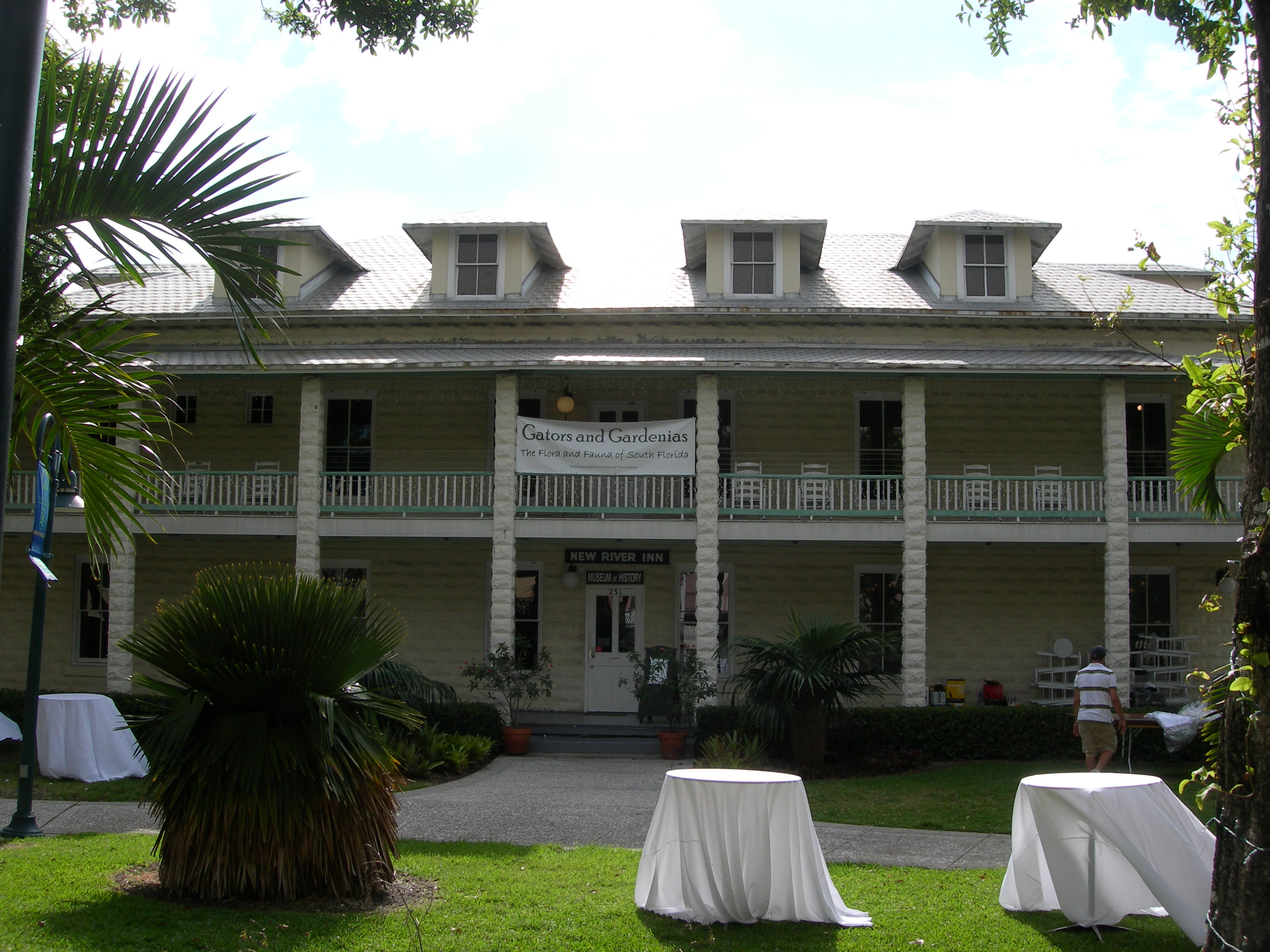 New River Inn (listed as historic landmark), Fort Lauderdale, Florida, USA